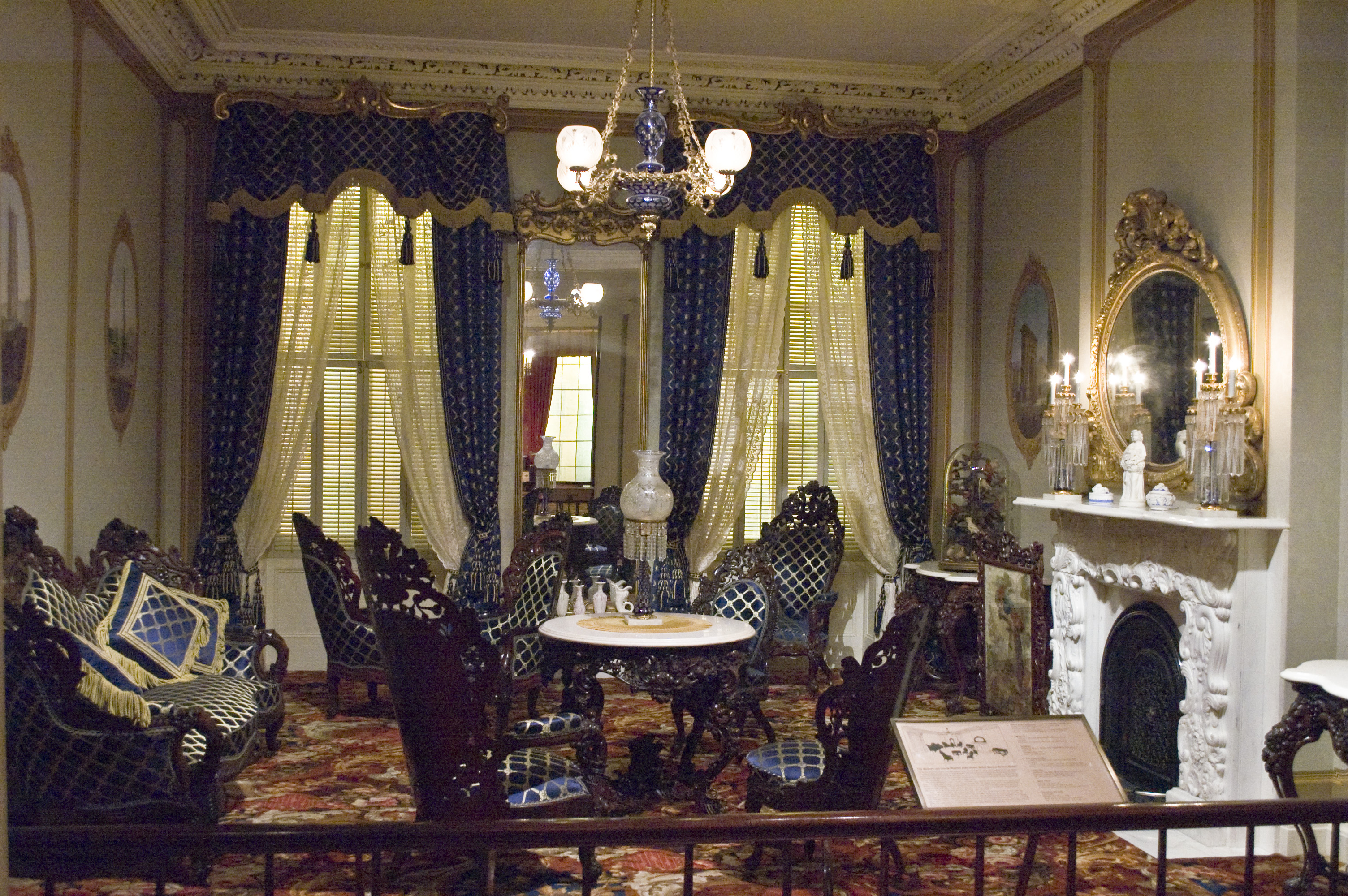 This period room displays a Rococo Revival Parlor that might have been created c. 1855 in New York City. It is in the Metropolitan Museum of Art.